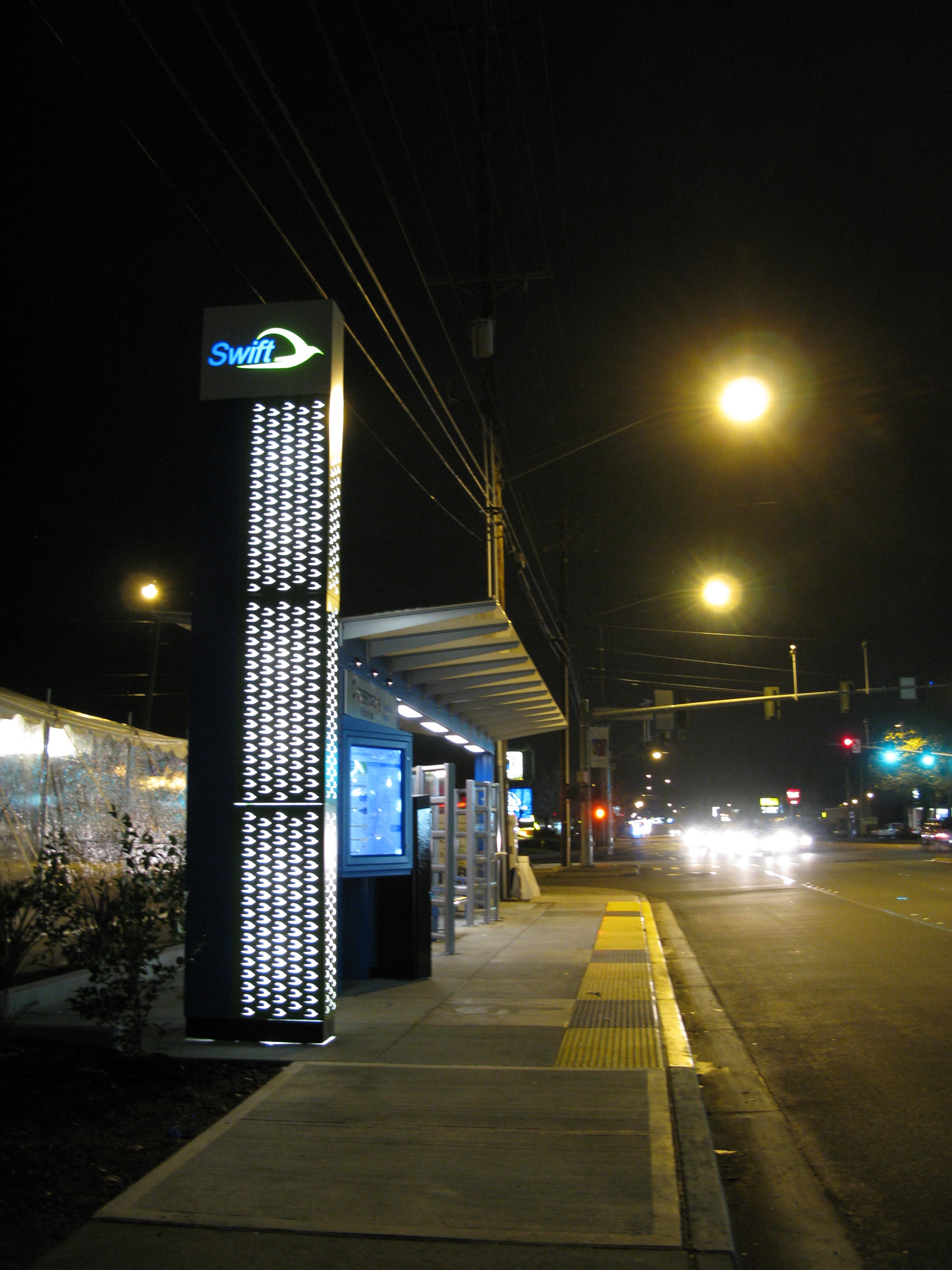 SR 99 & SW 196th St in Lynnwood